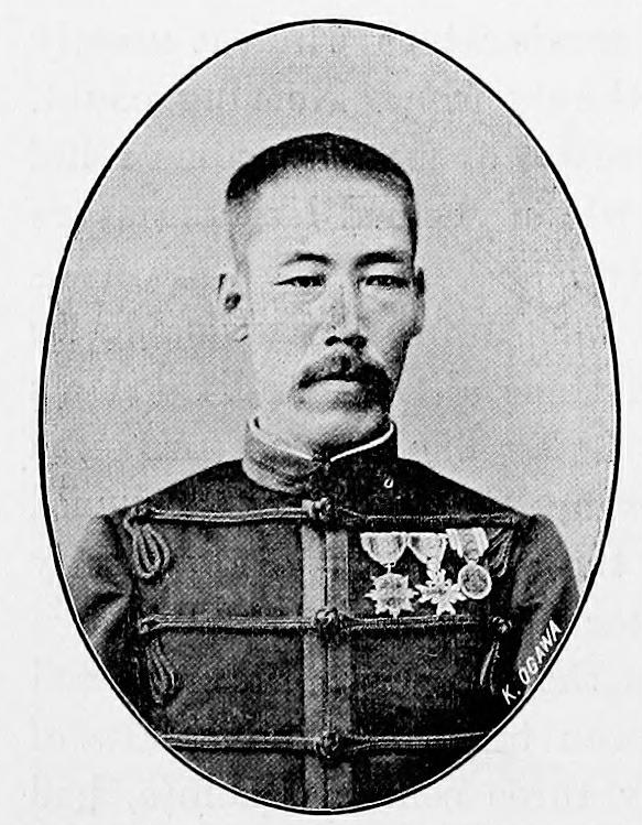 Lieutenant-Colonel Taketa